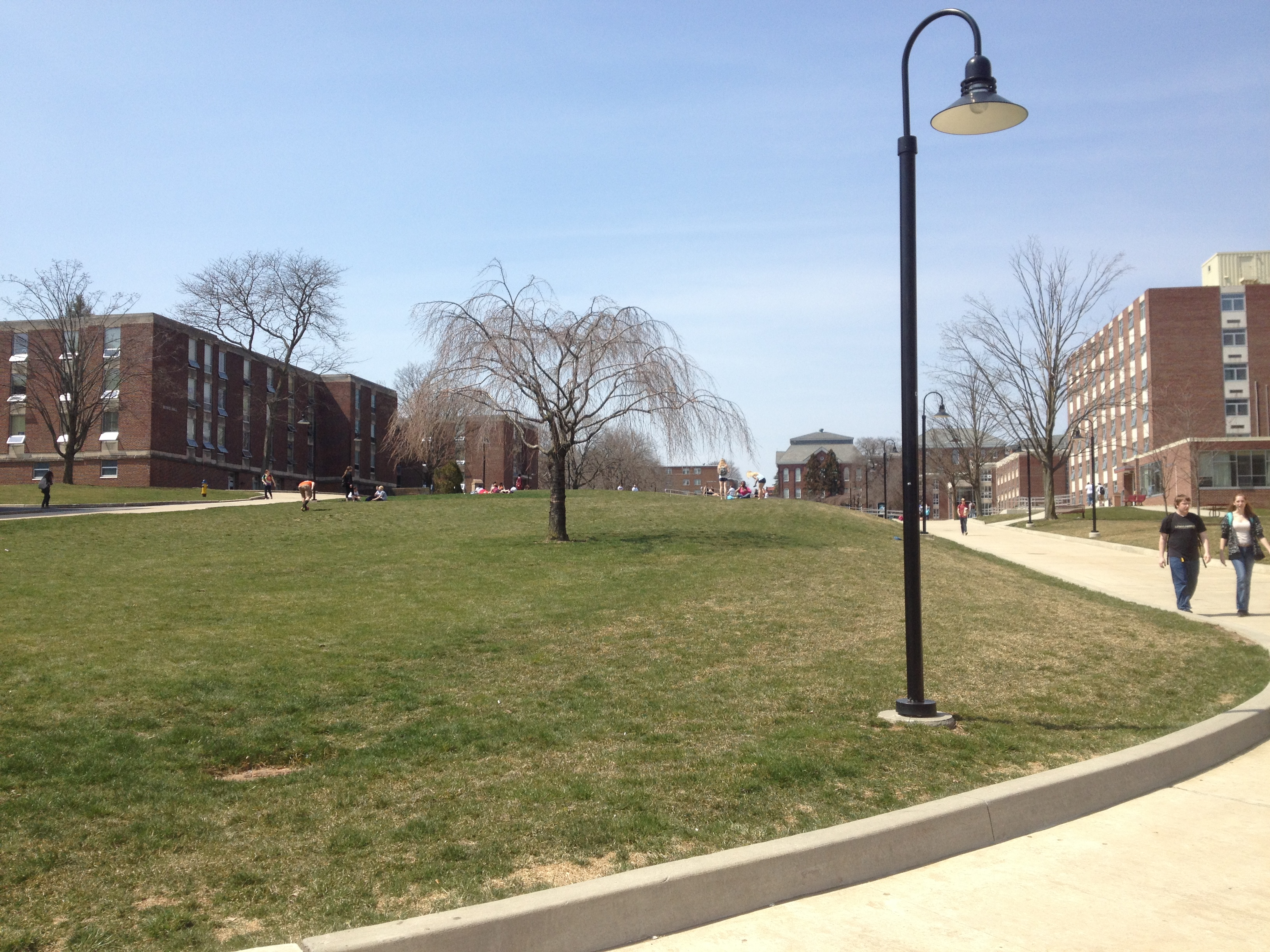 The DMZ at South Campus of Kutztown University of Pennsylvania looking northwest.